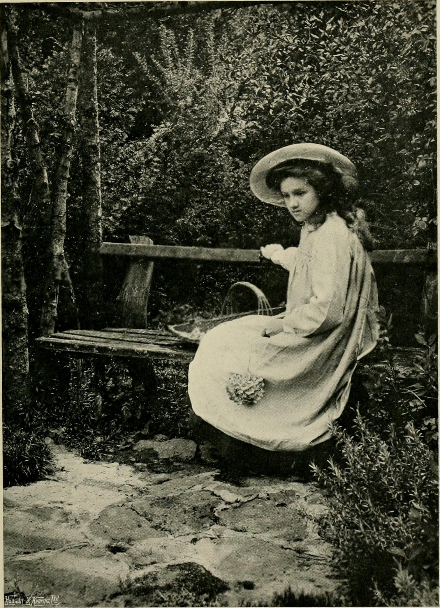 Title: Children and gardens Year: 1908 (1900s) Authors: Jekyll, Gertrude, 1843-1932 Subjects: Gardening Children Amusements Publisher: London, Offices of 'Country life', ltd. (etc.) New York, C. Scribner's sons Text Appearing Before Image: MAKING A PRIMROSE BALL. Text Appearing After Image: A PRIMROSE BALL.